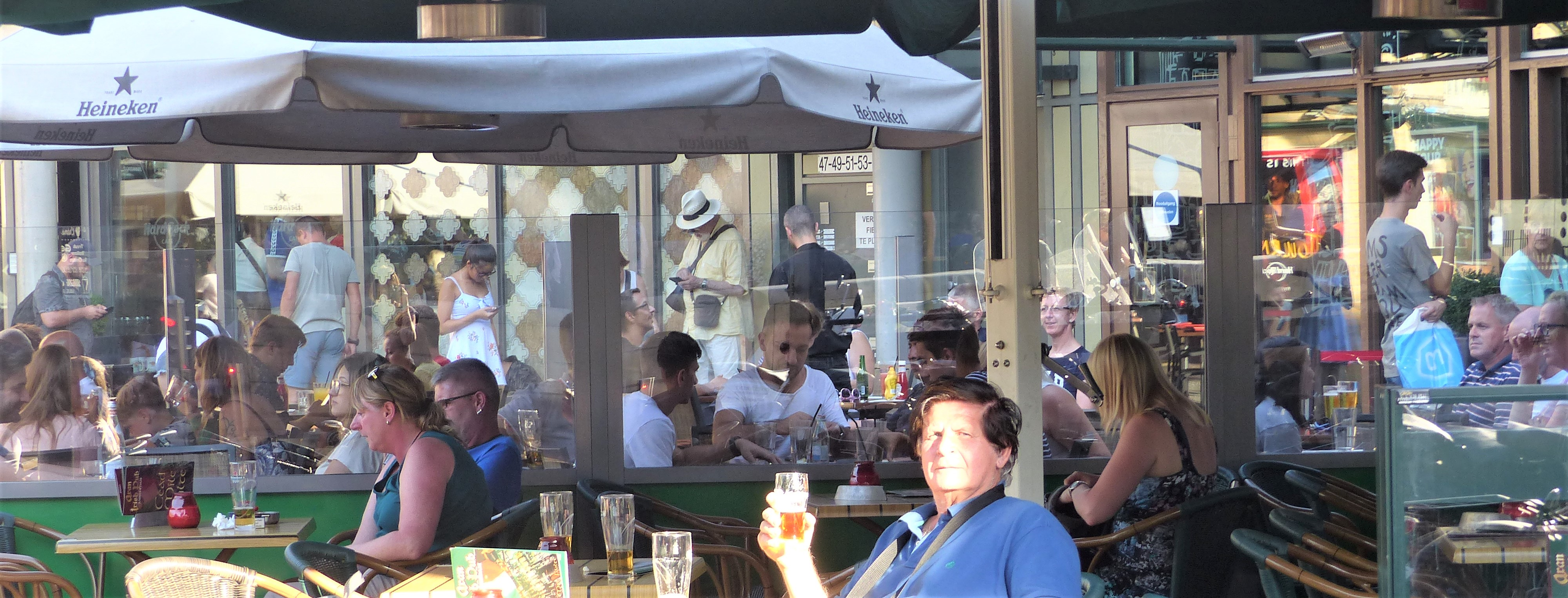 Max Euweplein, Aran Irish Pub on the 6th of August, 2018.